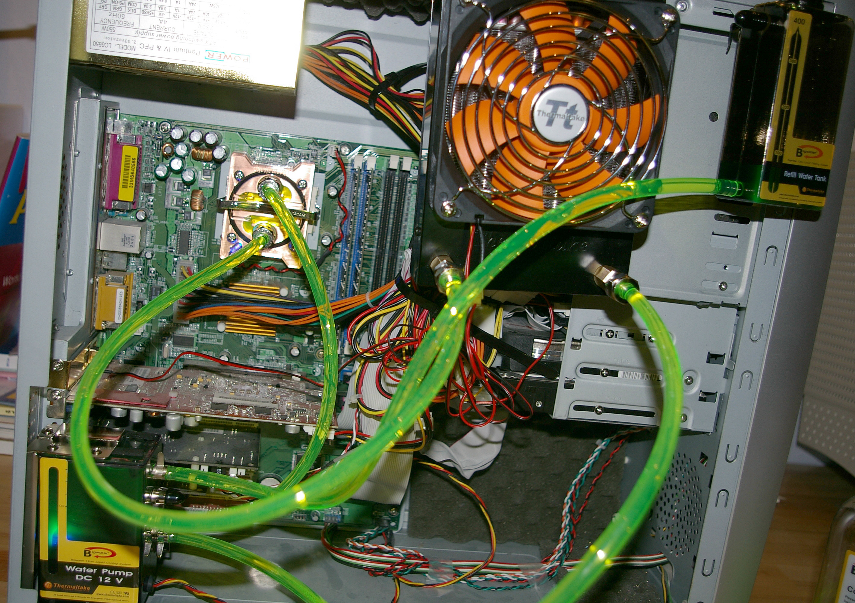 A testinstallation of a PC-watercolling system in an AMD computer.